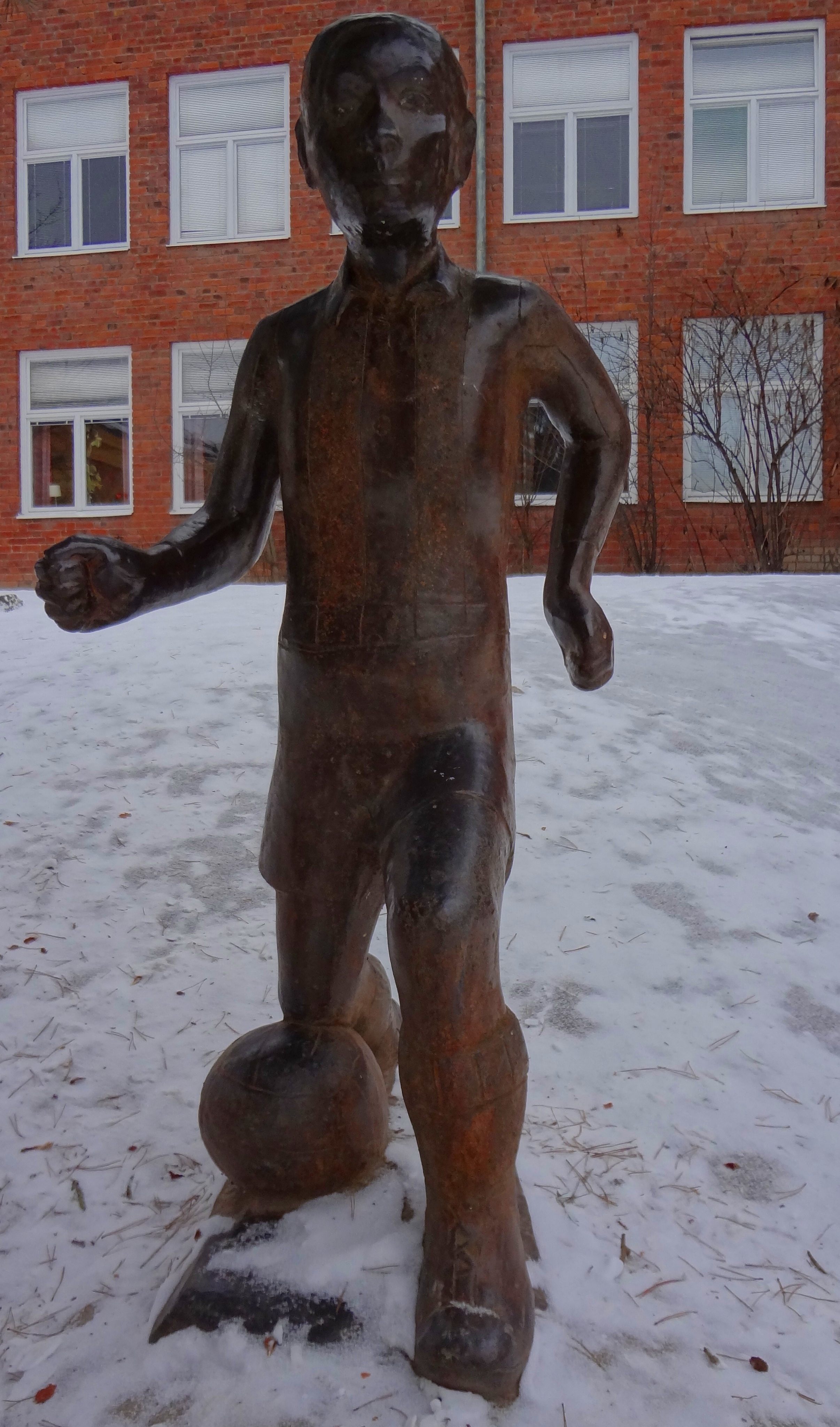 Sculpture "Fotbollsspelare" (en:"Soccerplayer"). Made by Allan Ebeling in 1948. Placed at Björktorpsskolan in Eskilstuna, Sweden.